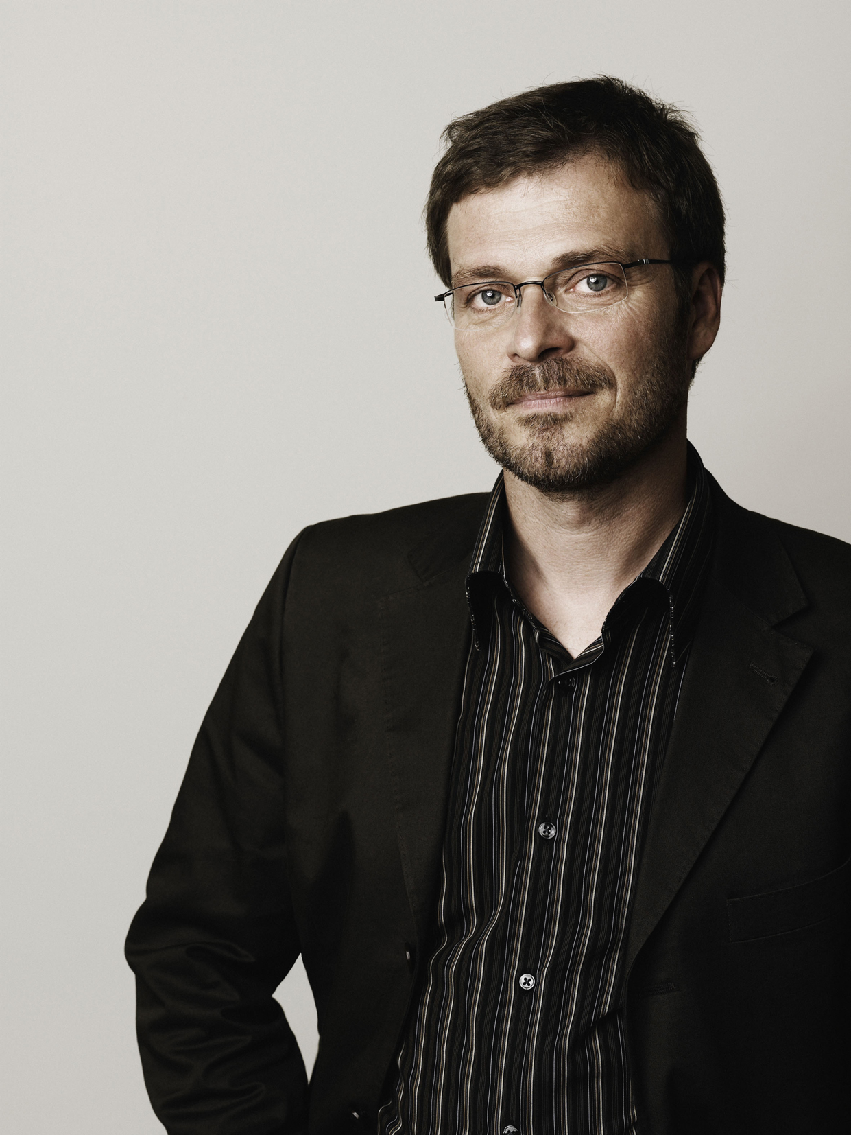 The austrian politician Wolfgang Pirklhuber